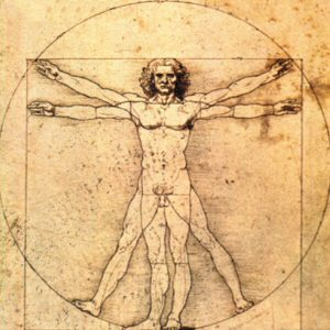 Da Vinci